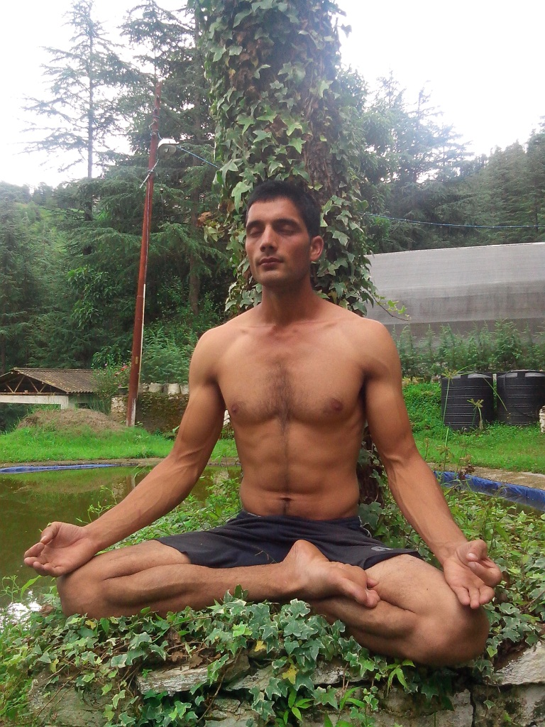 Shimla At Its Best In Monsoon